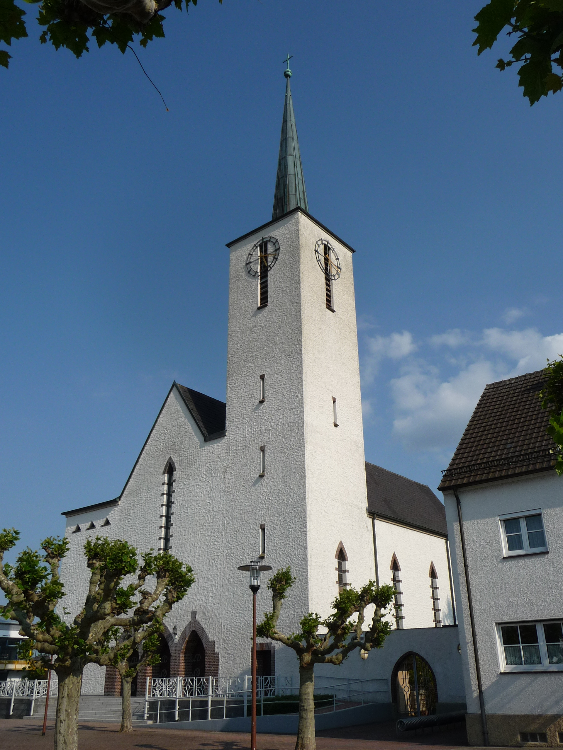 St. Laurentius (Schifferstadt)